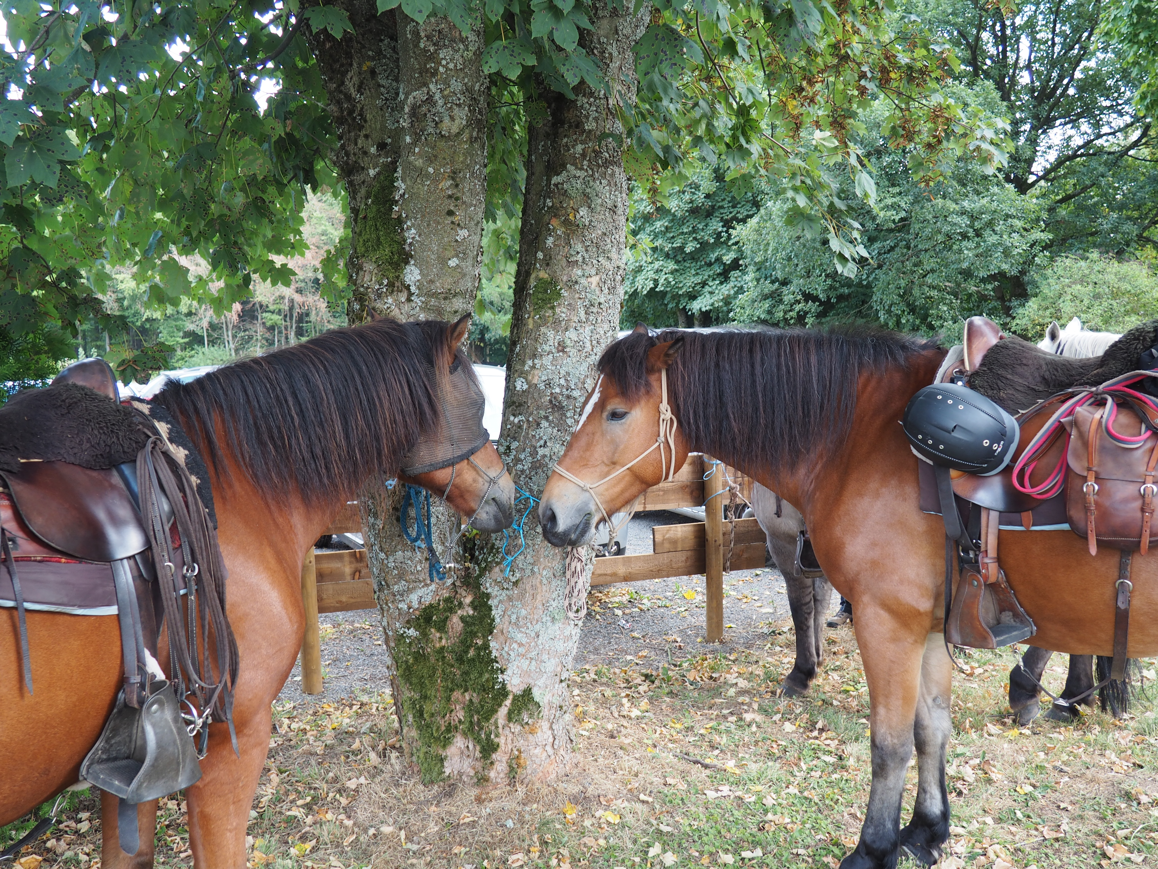 Horses